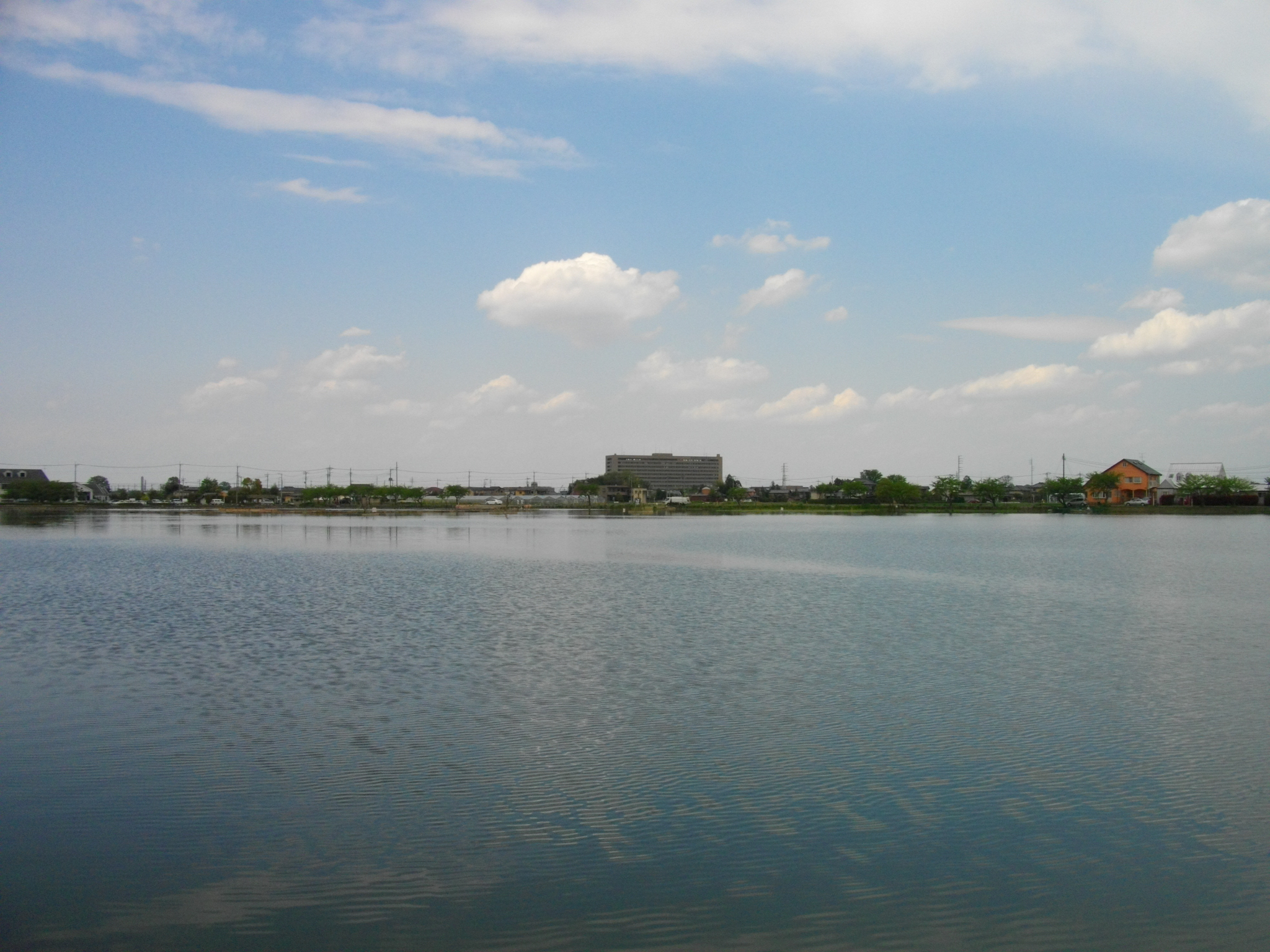 Isa-numa